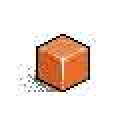 Double-sized version of Image:Jpg pixel cube.jpg.